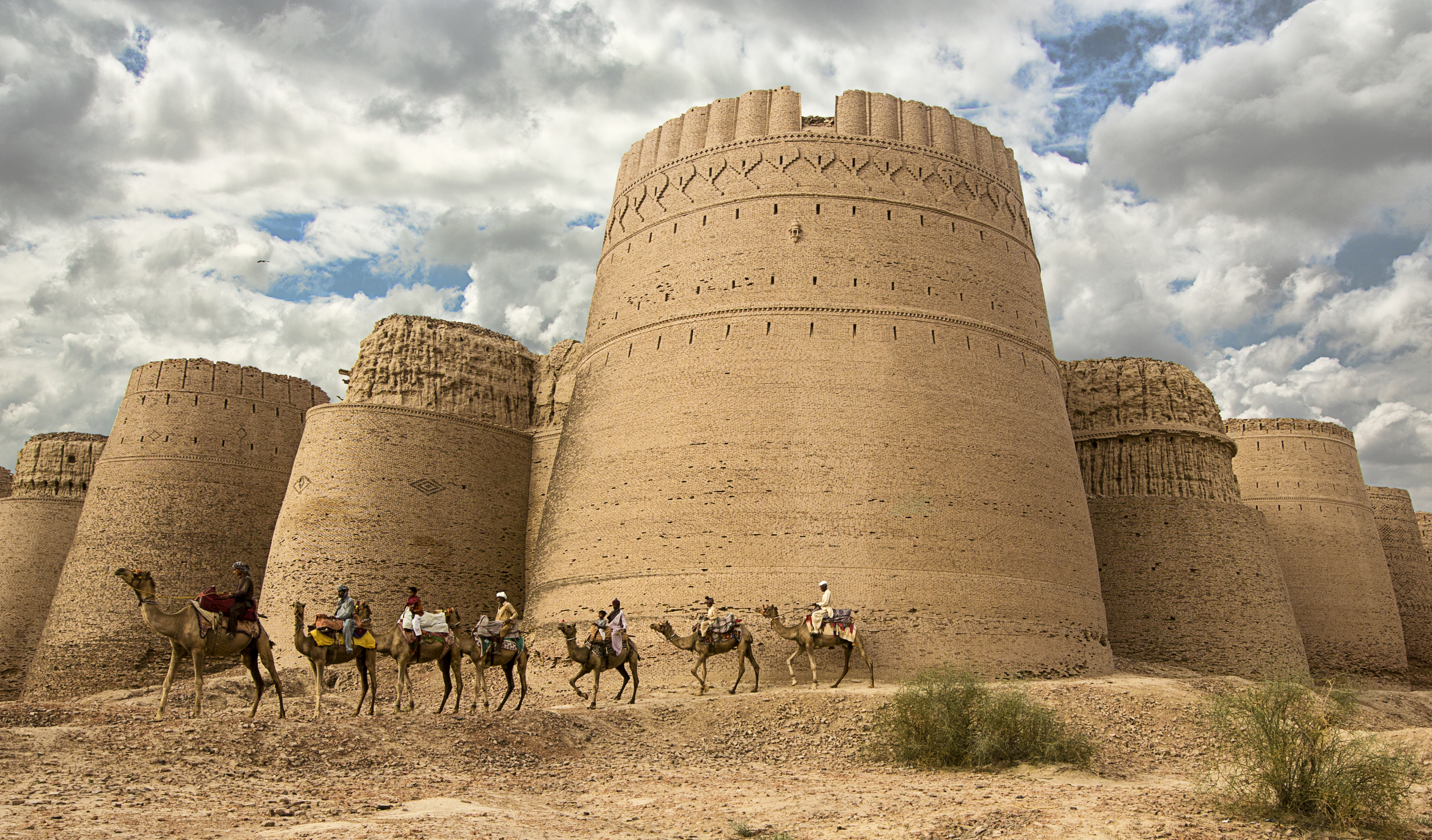 Derawar Fort is a large square fortress in Bahawalpur, Punjab, Pakistan. The forty bastions of Derawar are visible for many miles in the Cholistan Desert. The walls have a perimeter of 1500 metres and stand up to thirty metres high.